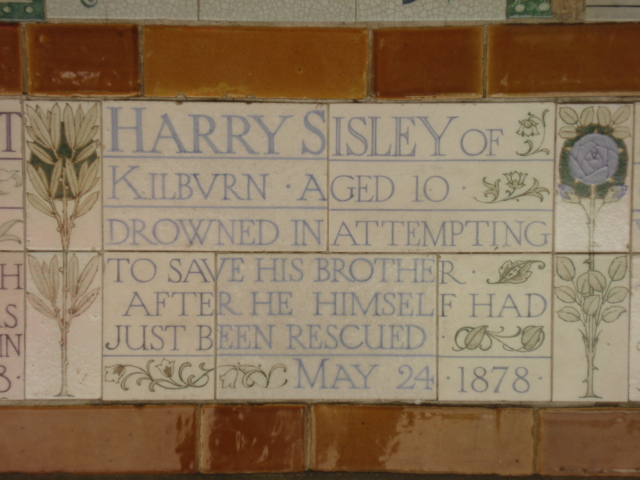 Memorial, Postman's Park, London